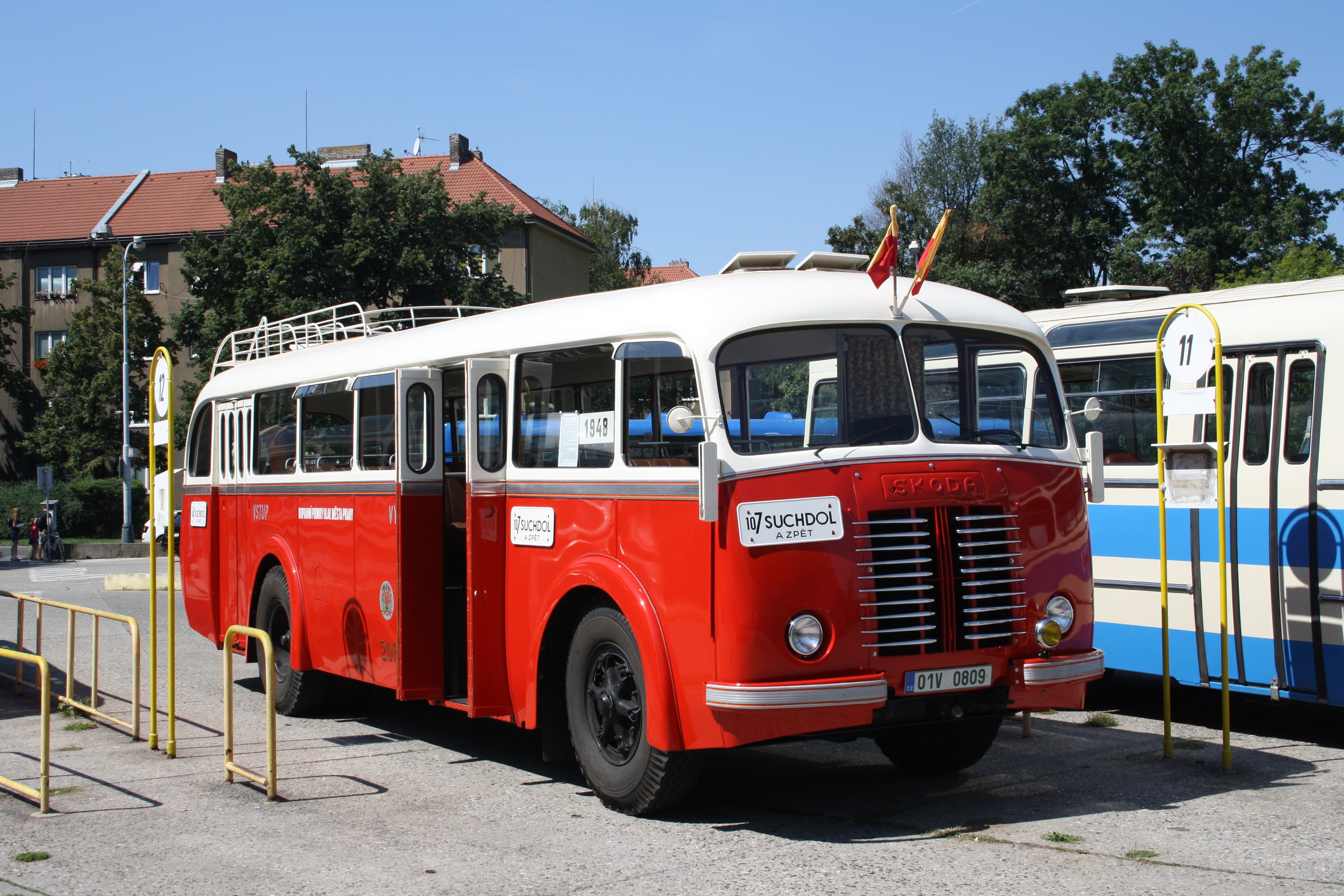 Bus Škoda 706 RO